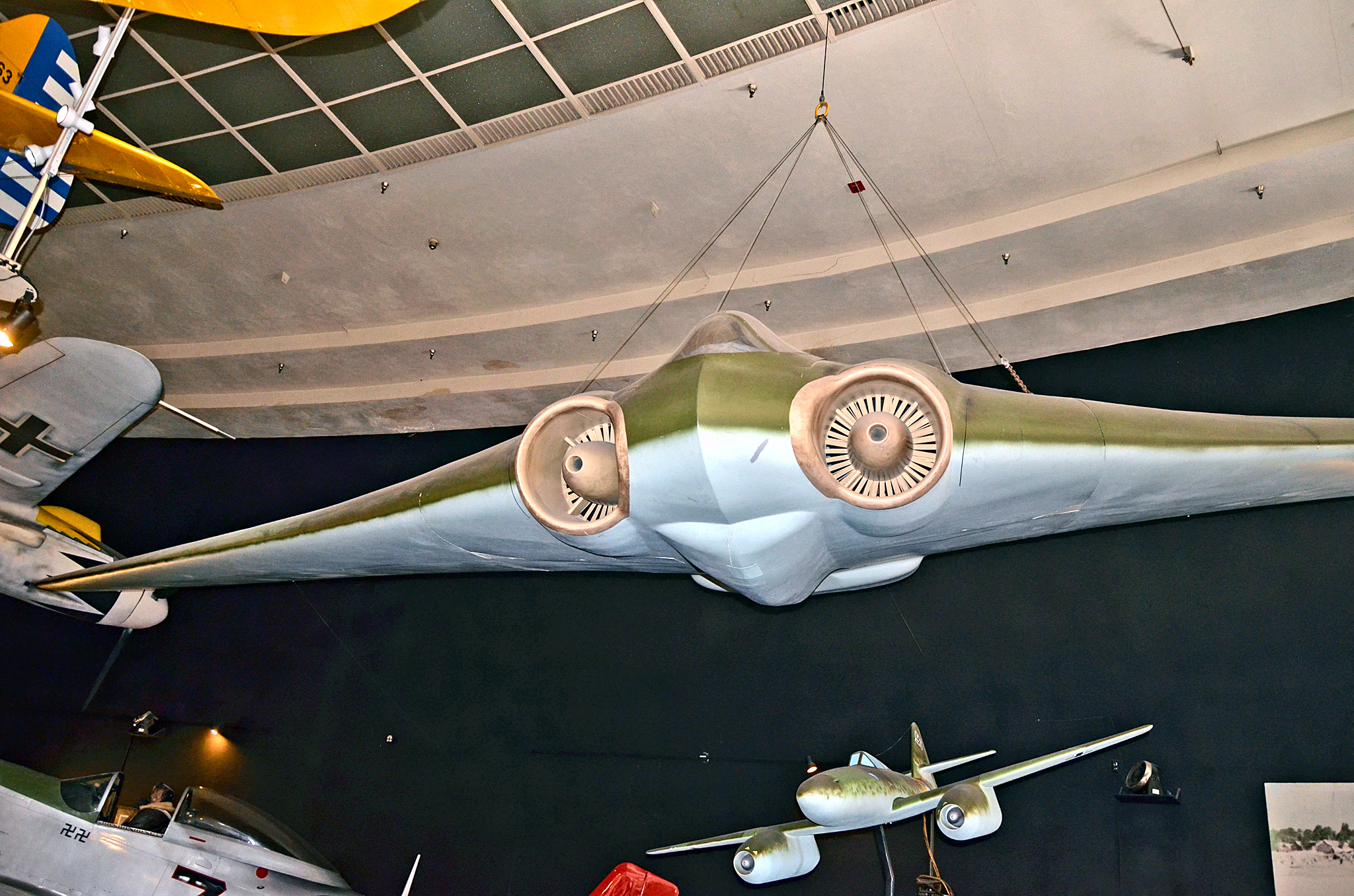 Northrop-built reproduction of the Horten Ho IX V3 TDelCoro July 29, 2013